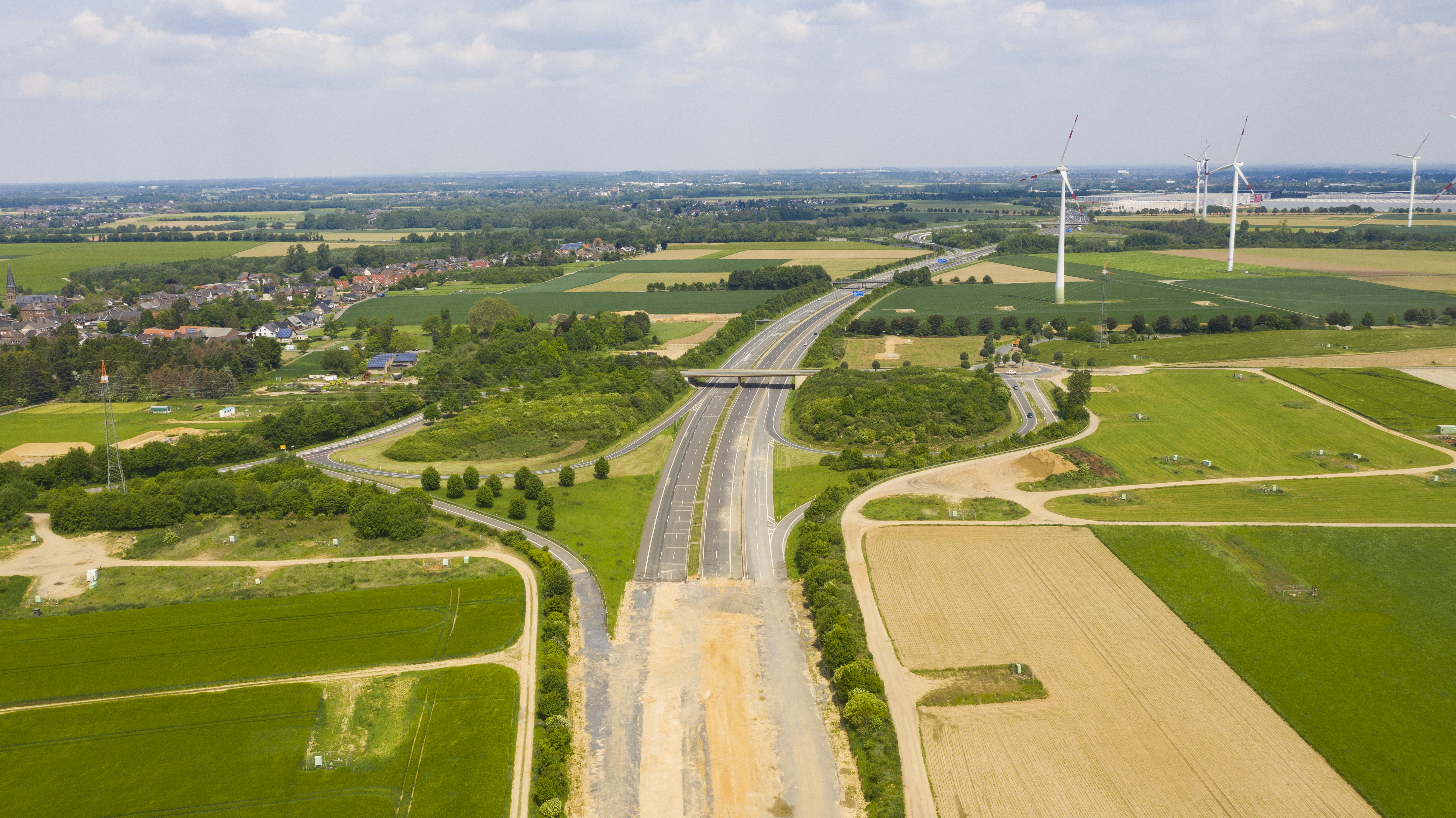 Demolished Highway A61 in preparation for Garzweiler surface mine near Wanlo, Germany.